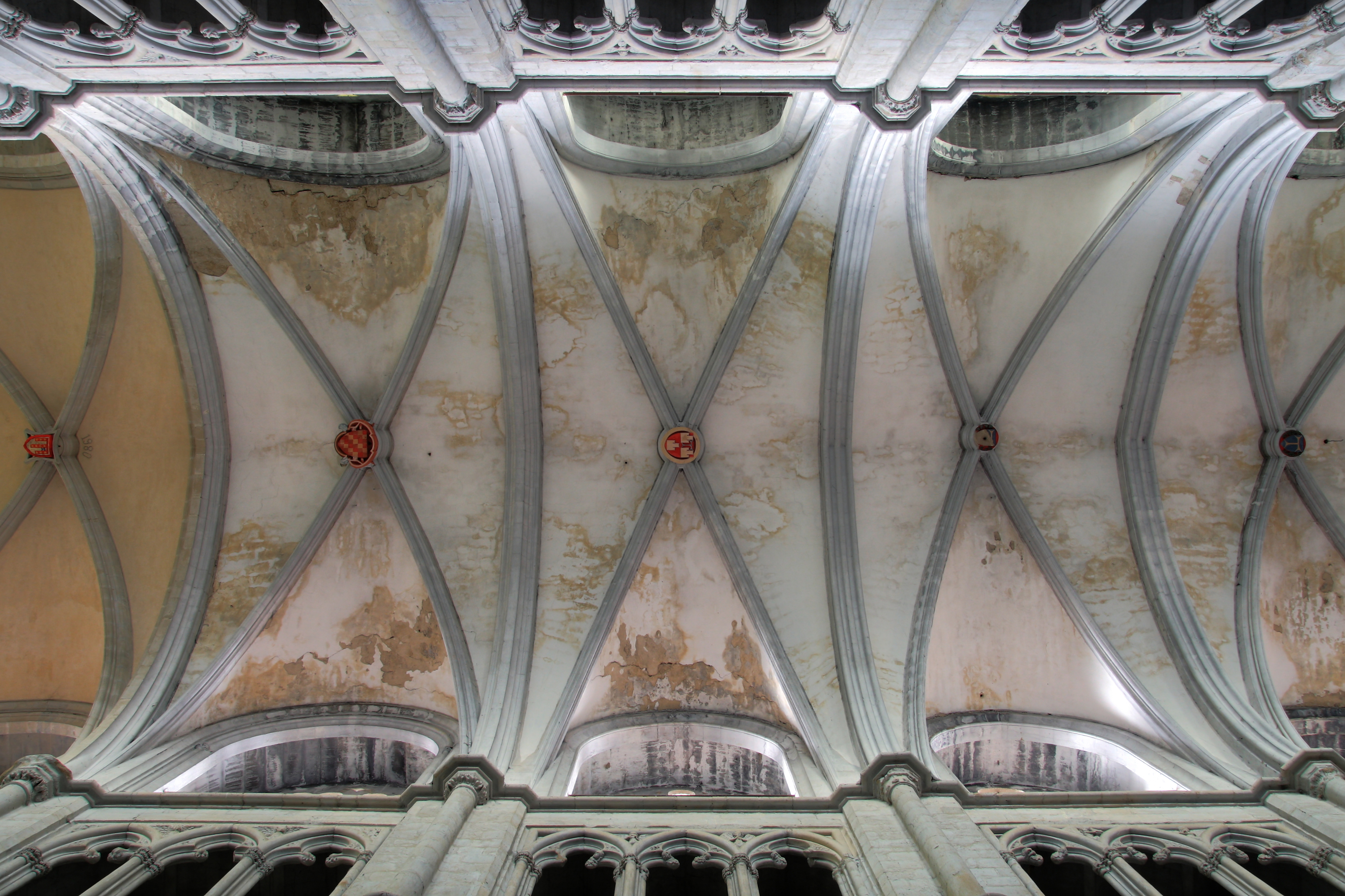 Vaults of the abbatial church of Saint-Antoine-l'Abbaye.